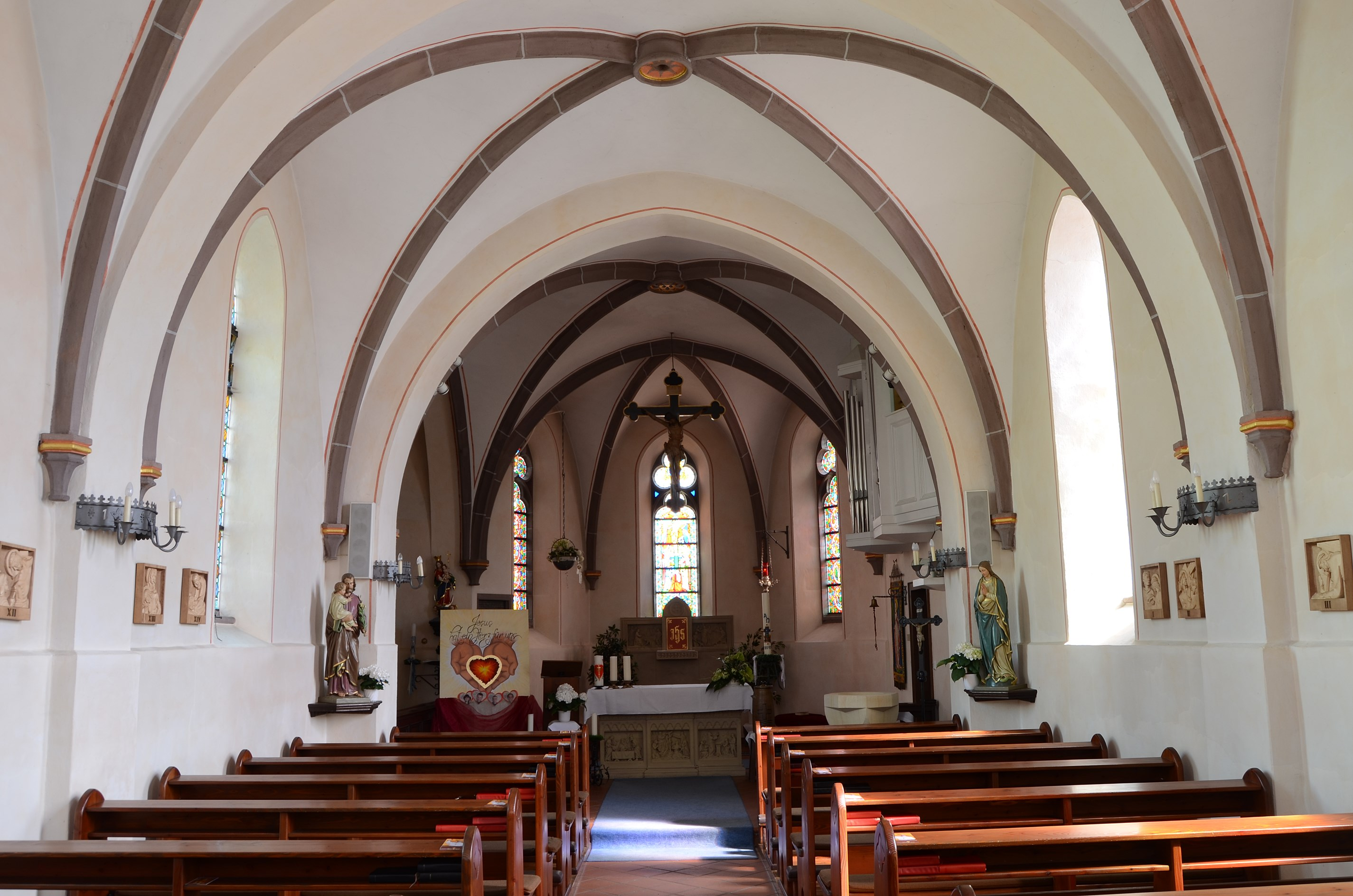 Olsberg, Gevelinghausen, St. Maria Magdalena This image shows a heritage building in Germany, located in the North Rhine-Westphalian city Olsberg (no. 69). This photograph was taken with a Nikon D7000